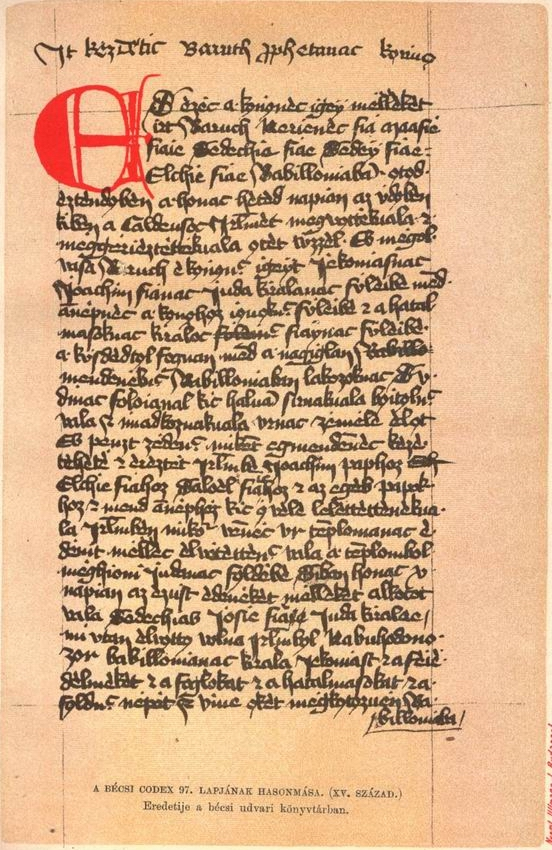 Page 97 from the "Bécsi kódex", an old Hungarian manuscript dating from the 15th century A Bécsi kódex 97. oldala.